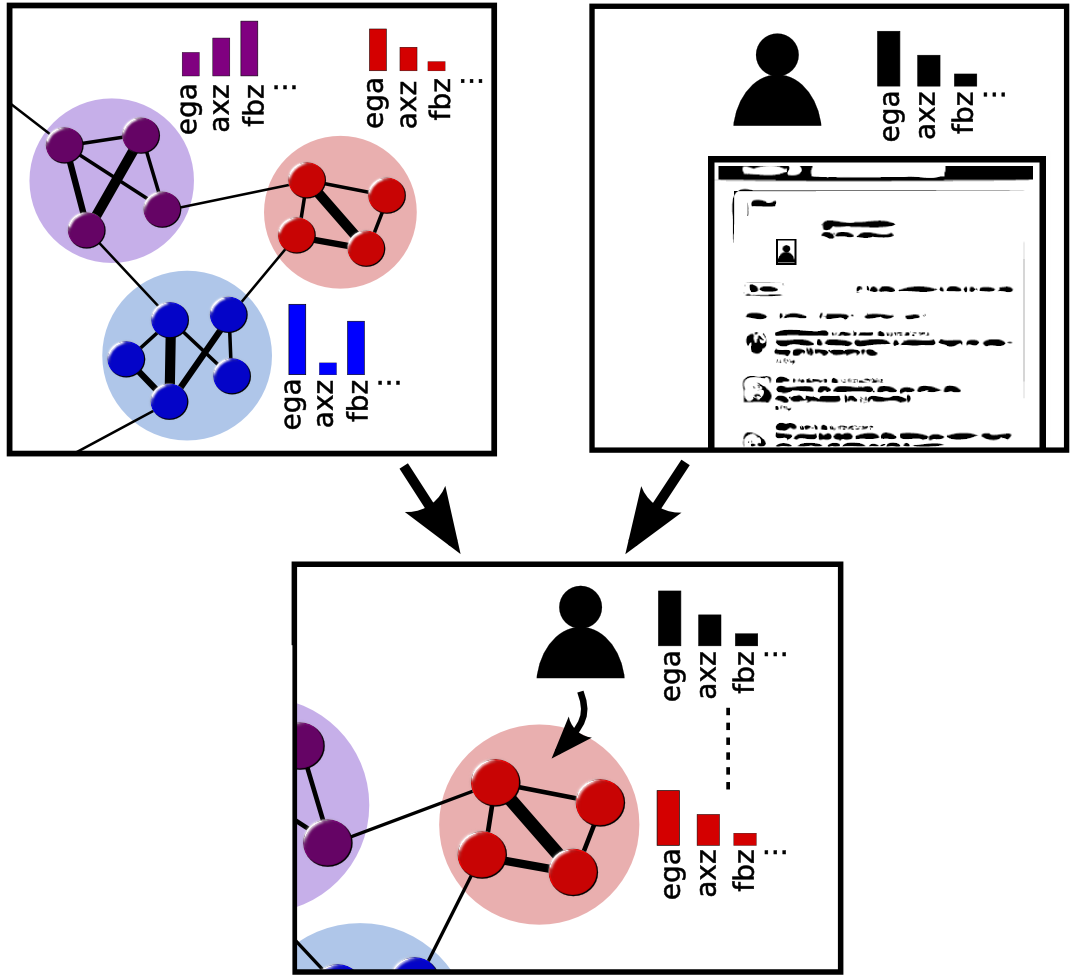 Method for predicting the community of a user. An illustration of the method for predicting which community a user is embedded in. Words are assigned scores (shown as bars above the words in the figure) based on how significantly different their usage is when compared with the global usage (see main text for more details). These scores are generated for the amalgamated text of the users of each community (top left panel), and for the text of the user being tested (top right panel). The scores are compared between a user and all communities and the best match is chosen as the predicted community (bottom panel).